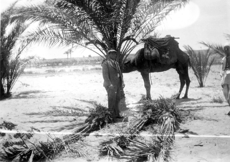 Ben-Zion Israel traveled to Iraq in 1933 to bring palm's branches. In the picture is breakfast in the desert